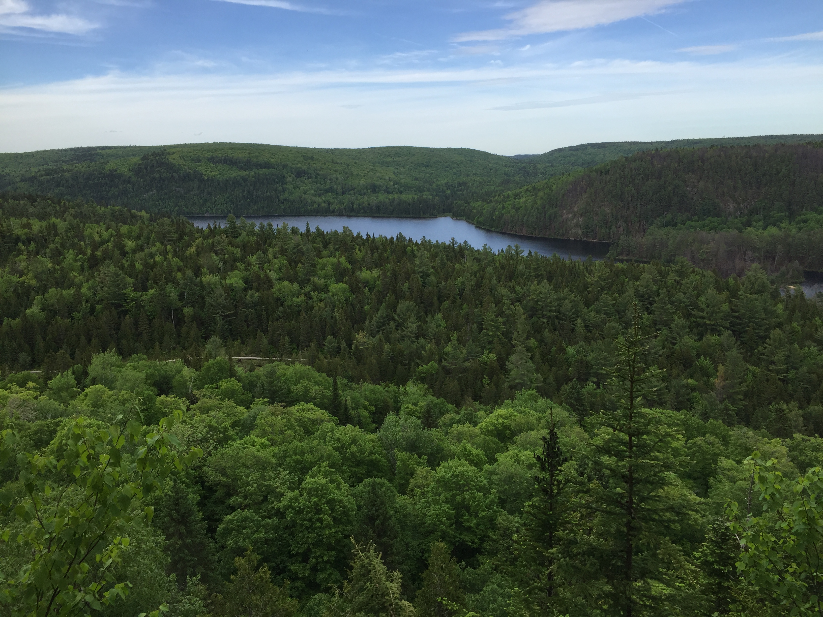 Mixed Forest (coniferous/deciduous) surrounding Lac Wapizagonke at Parc national de la Mauricie National Par This photo was taken in a protected area in Canada, Wikidata item La Mauricie National Park (Q1798539)